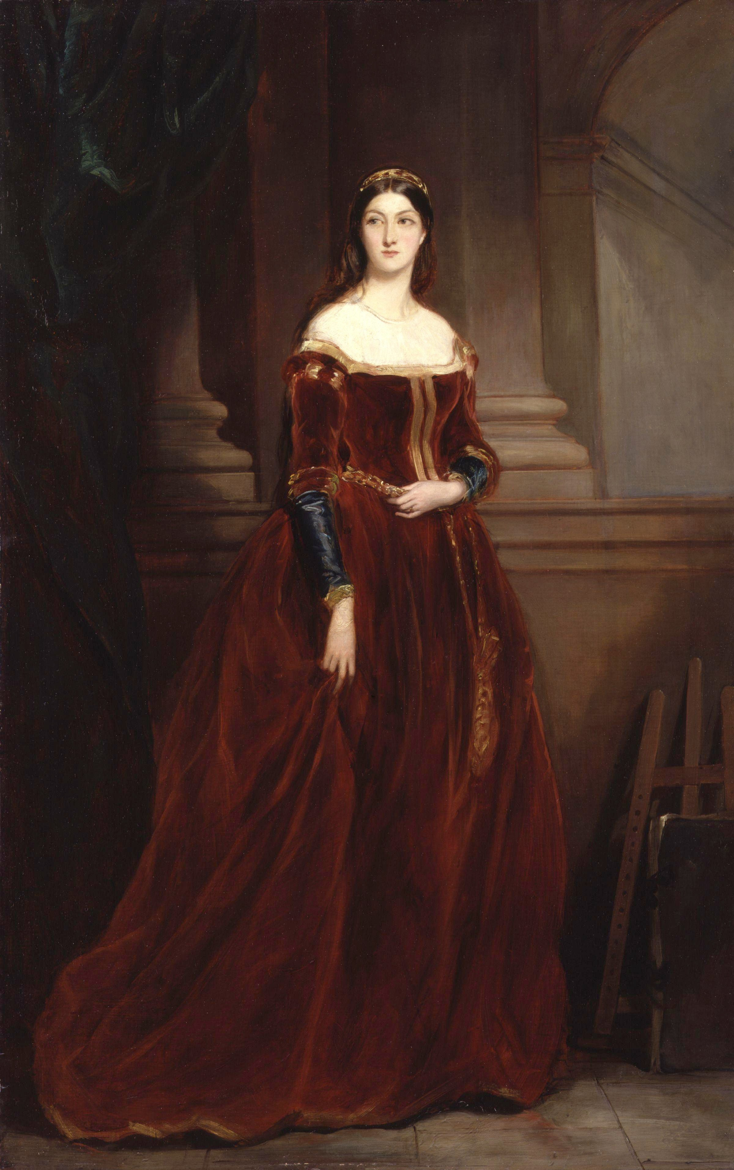 All images in this batch have been confirmed as author died before 1939 according to the official death date listed by the NPG.